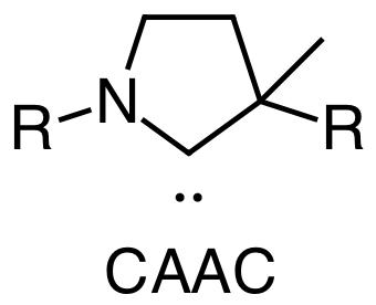 the generic structure of a CAAC